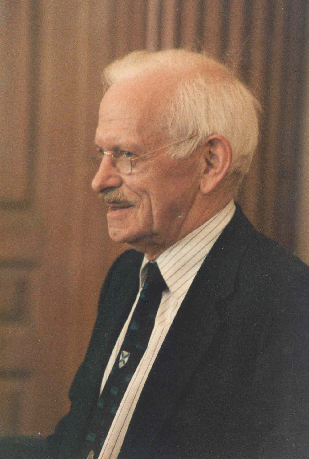 Profile from iht